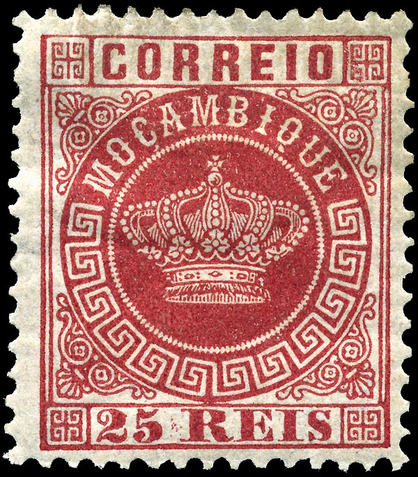 Mozambique 25-reis stamp of 1877